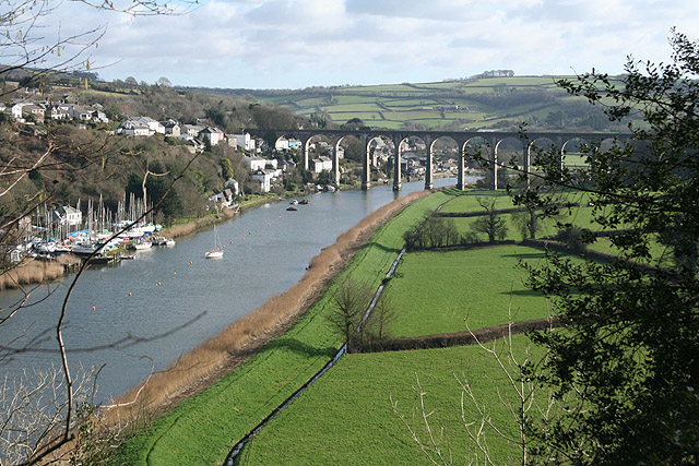 The Tamar downstream from Calstock Looking towards the viaduct that links Plymouth, Beer Alston, Calstock and Gunnislake by rail